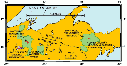 Map showing the locations of the two extremely low frequency (ELF) transmitters in Clam Lake, Wisconsin and Republic, Michigan, USA, used by the U.S. Navy from 1989 to 2004 to communicate with submarines. From a U.S. Navy public relations pamphlet. The red lines show the paths of the huge ground dipole antennas, consisting of 14 to 28 mile power transmission lines grounded at the ends, which radiated the ELF waves. This is one of only two ELF transmitter facilities that have been constructed; the other is the Russian Navy ZEVS transmitter on the Kola Penninsula in northern Russia. The radiation pattern of each ground dipole antenna is maximum along the axis of the transmission line, so each transmitter had perpendicular ground dipoles, to allow it to transmit in any direction. The Clam Lake, WI transmitter (left) consisted of two crossed 14 mi. long ground dipoles, one oriented north-south, the other east-west. The Republic, MI transmitter consisted of two 14 mi. transmission lines oriented east-west, and one 28 mi. line oriented north-south (the specific shape of the antenna has no significance and was dictated by land availability). Each site had a 1 megawatt transmitter which drove the lines with currents of 150-300 amperes. The two sites were normally operated phase-synchronized as one antenna, with an output power of 8 watts, but could operate separately to improve survivability.